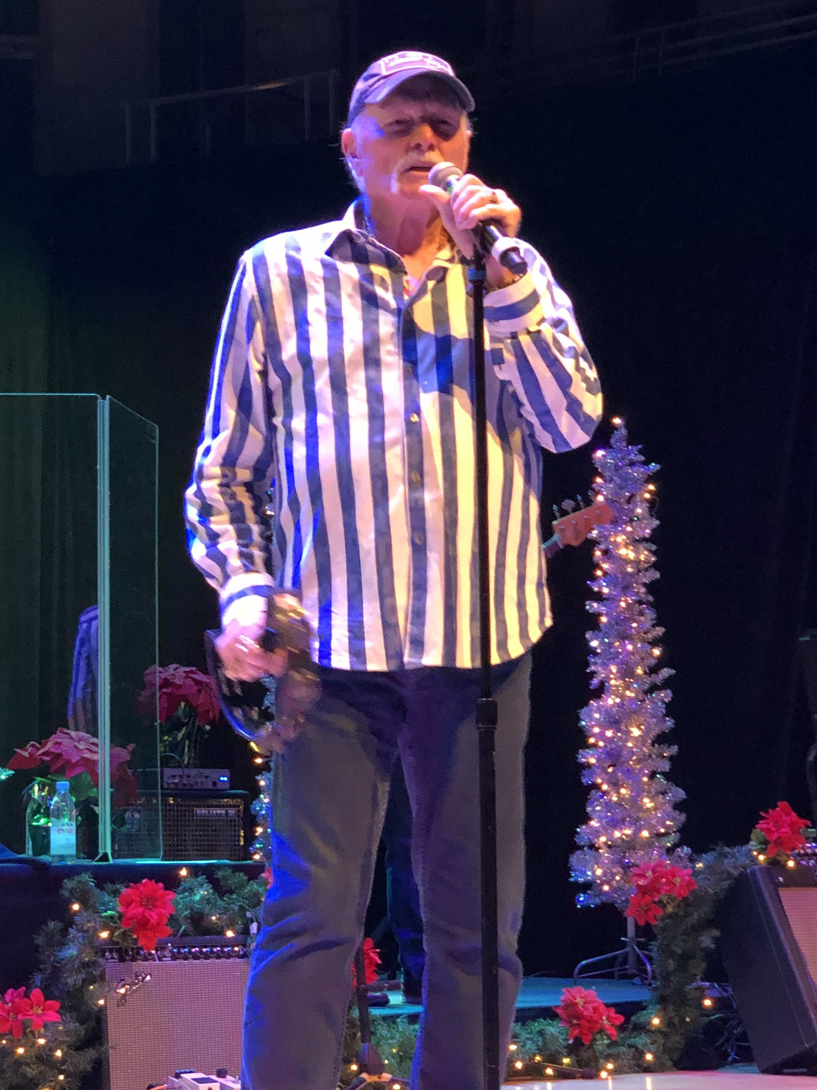 Mike Love live in concert, 2018.